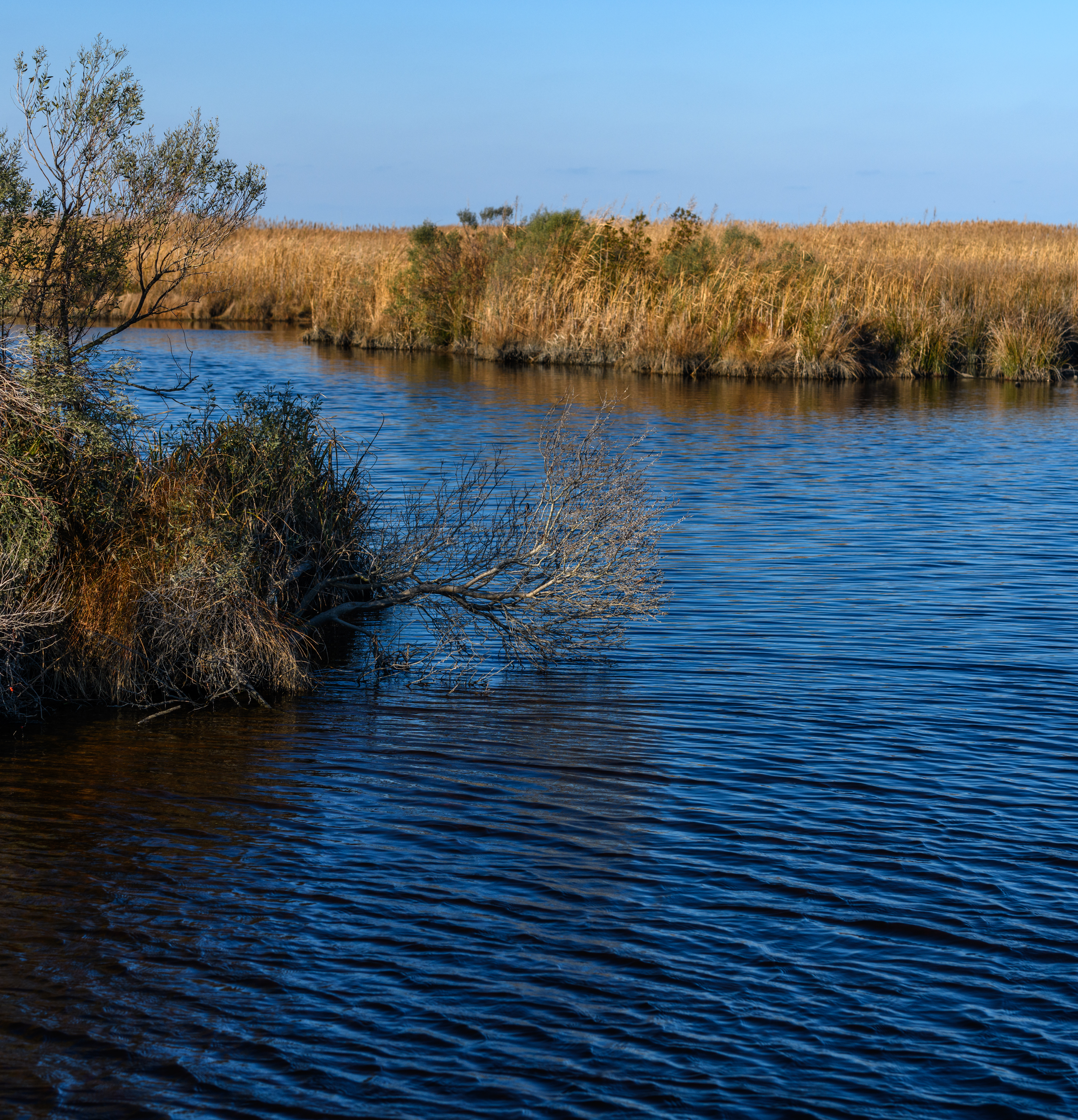 Mackay Island National Wildlife Refuge, along Mackay Island Road.